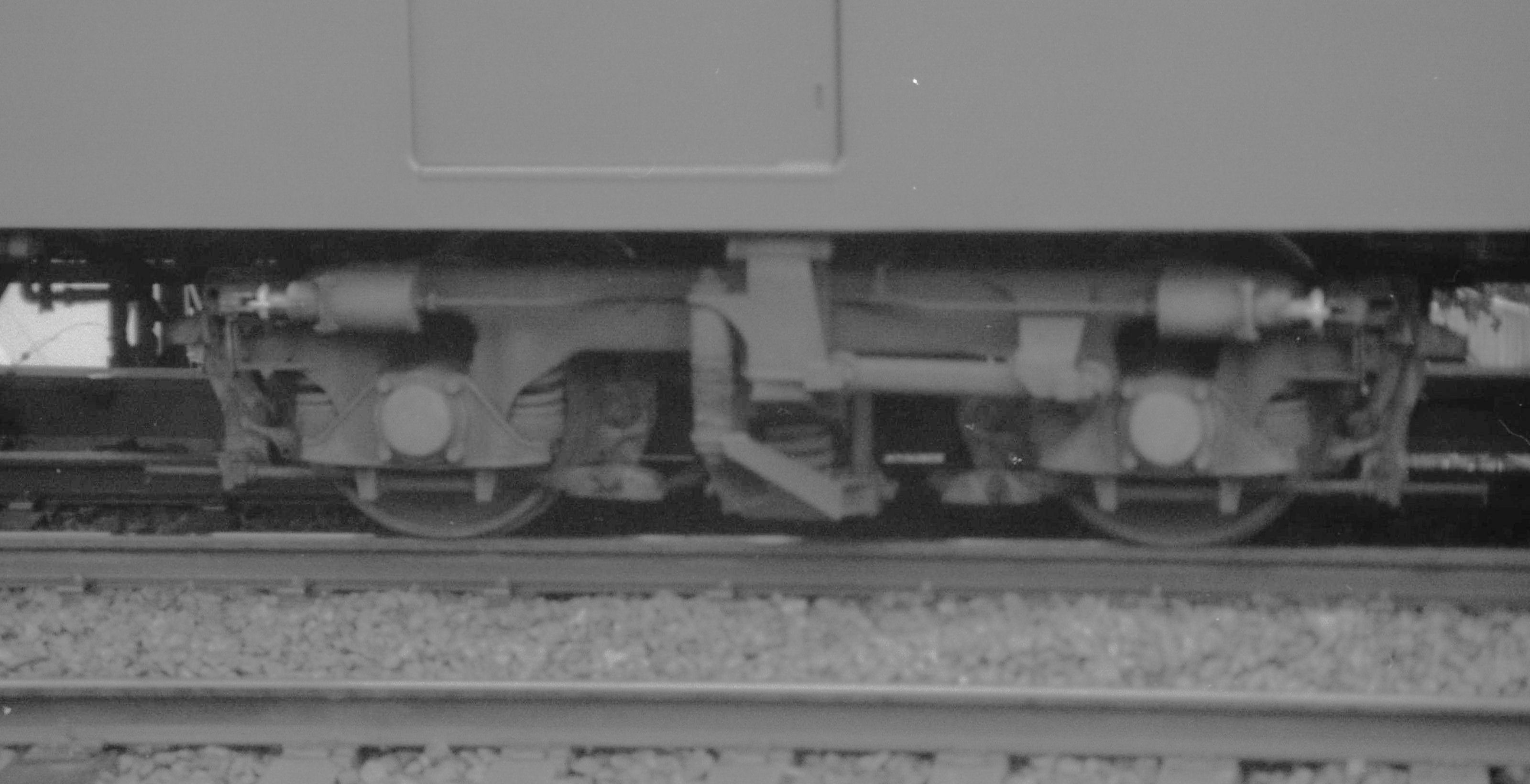 TH-700 bogie truck for Keikyu 700